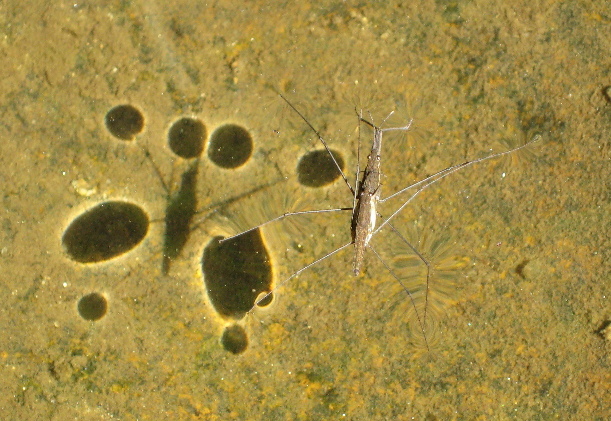 Mating water striders on the Ilz